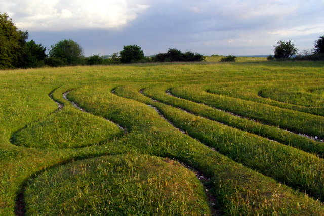 Mizmaze on St Catherine's Hill The south-east corner of the mizmaze on St Catherine's Hill. There are various stories about the origin and purpose of the mizmaze, a good account is given on the City of Winchester's information pages for tourists